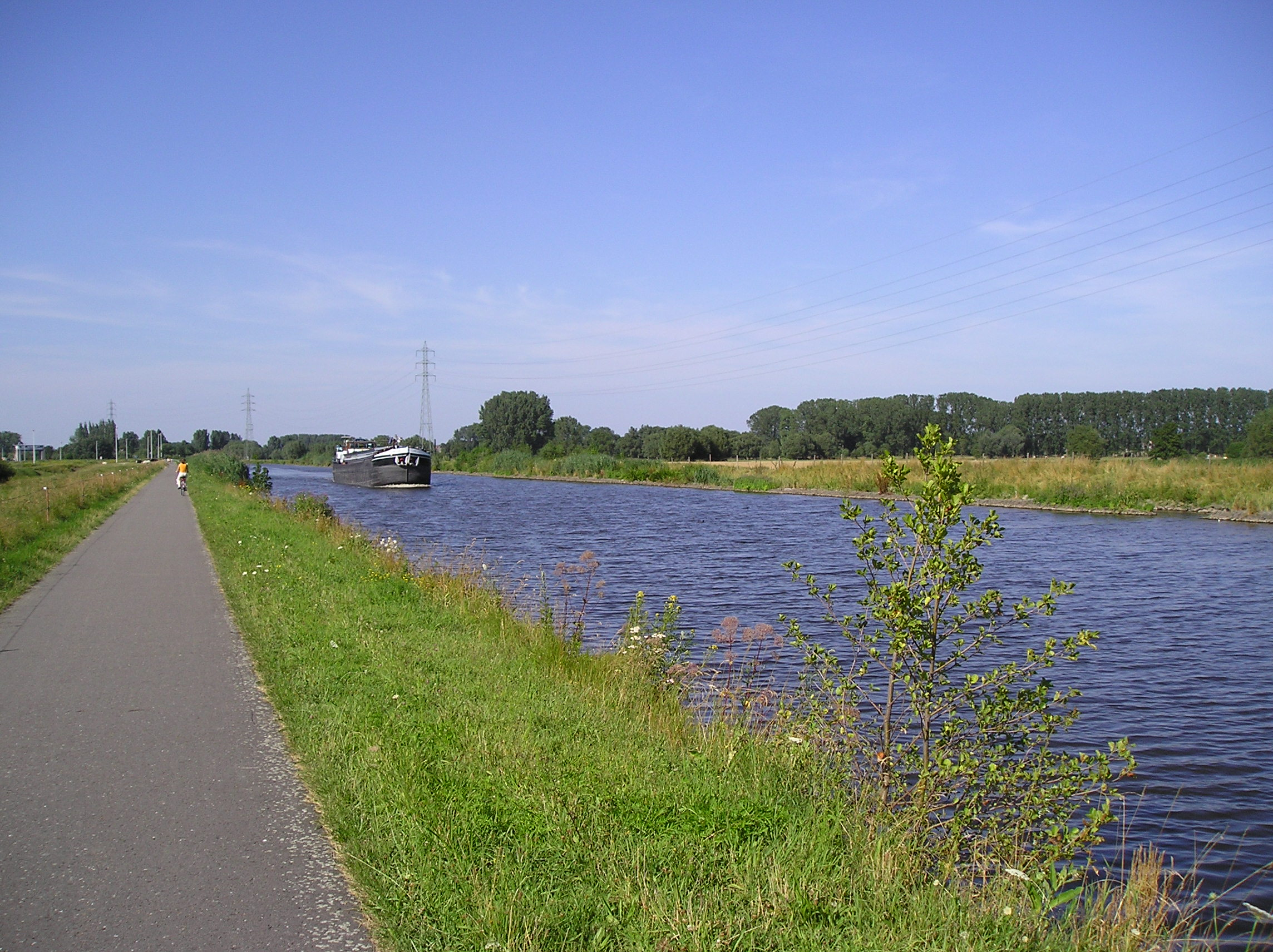 River Dender between Dendermonde and Aalst.